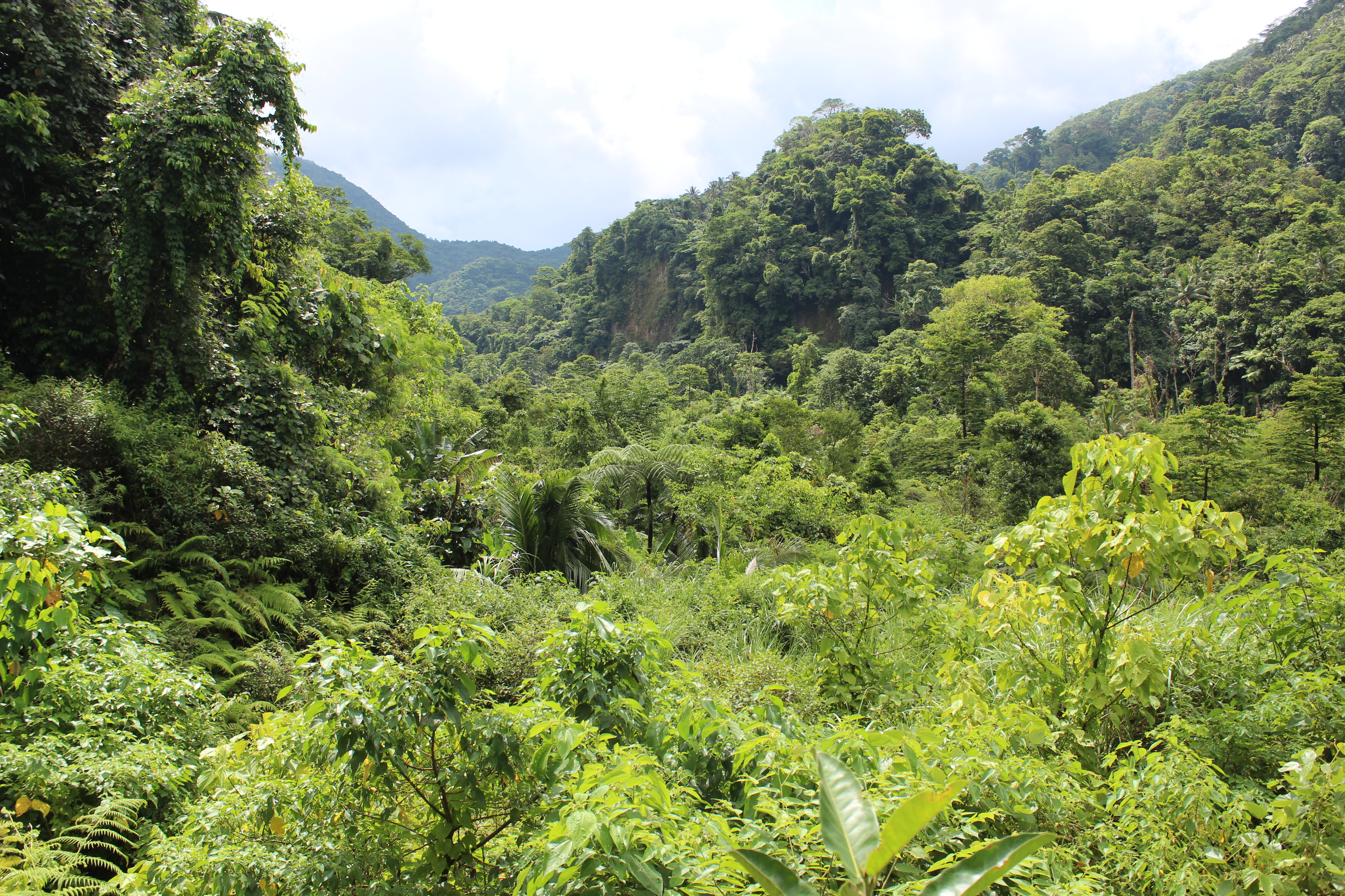 Rainforest in Camiguin, Philippines